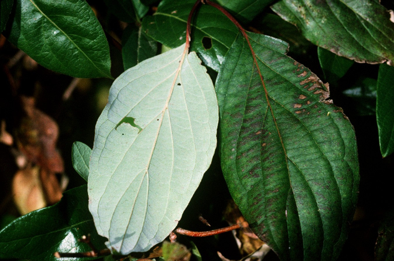 Leaf of Cornus drummondii